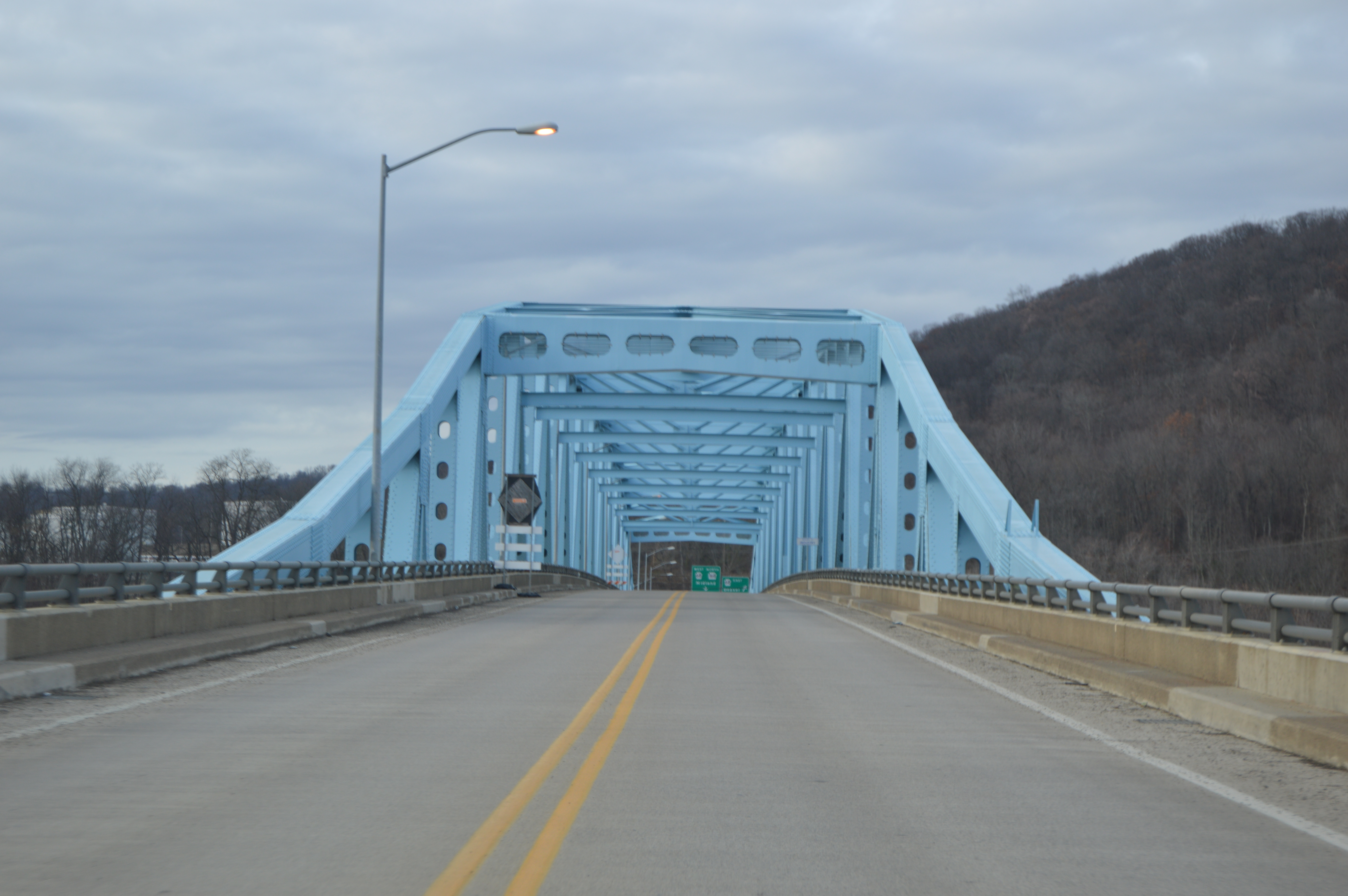 Looking northbound on the Shippingport Bridge, which carries Pennsylvania Route 168 across the Ohio River between Shippingport and Industry in Beaver County, Pennsylvania, United States. It was built in 1968.